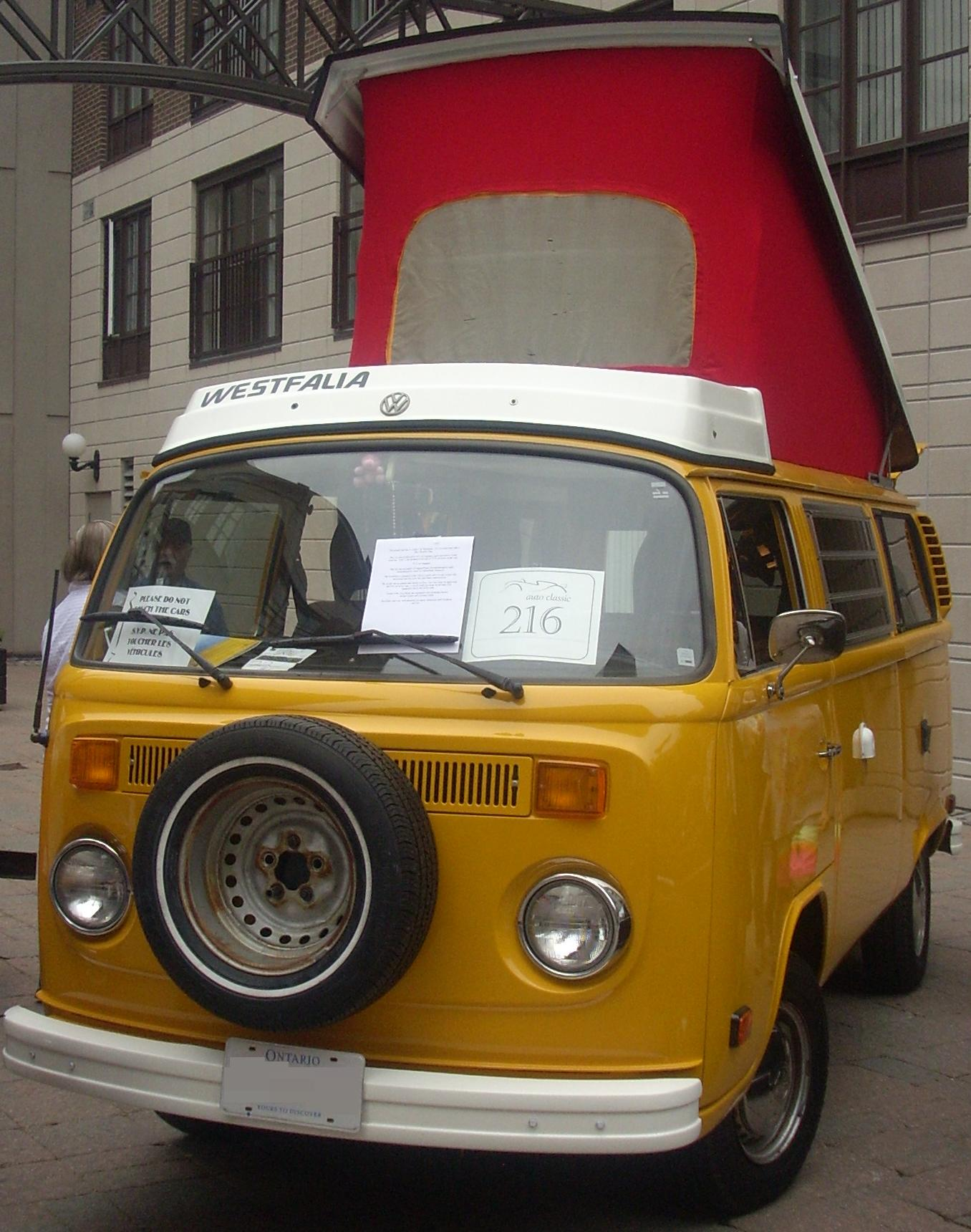 Volkswagen Type 2 photographed in Ottawa, Ontario, Canada at the Byward Market Auto Classic 2009.